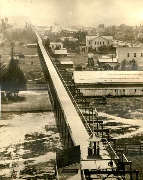 California Cycleway — Pasadena, California Fair Oaks Ave. seen on right side of image, toll booth at bottom. Print mounted on gray card.